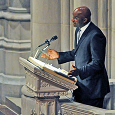 Rory Sparrow, NBA VP of Player Development speaks at Manute Bol's funeral at the Washington National Cathedral.